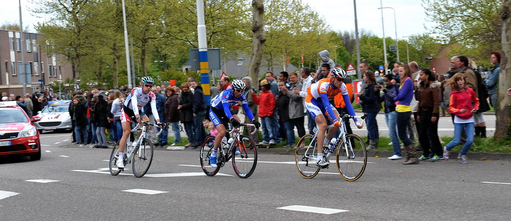 Giro d'Italia 2010 in Zoetermeer, the Netherlands - third stage. Tom Stamsnijder (Rabobank ProTeam 166), Jérôme Pineau (Quickstep – Innergetic 154) and Olivier Kaisen (Omega Pharma-Lotto 146).